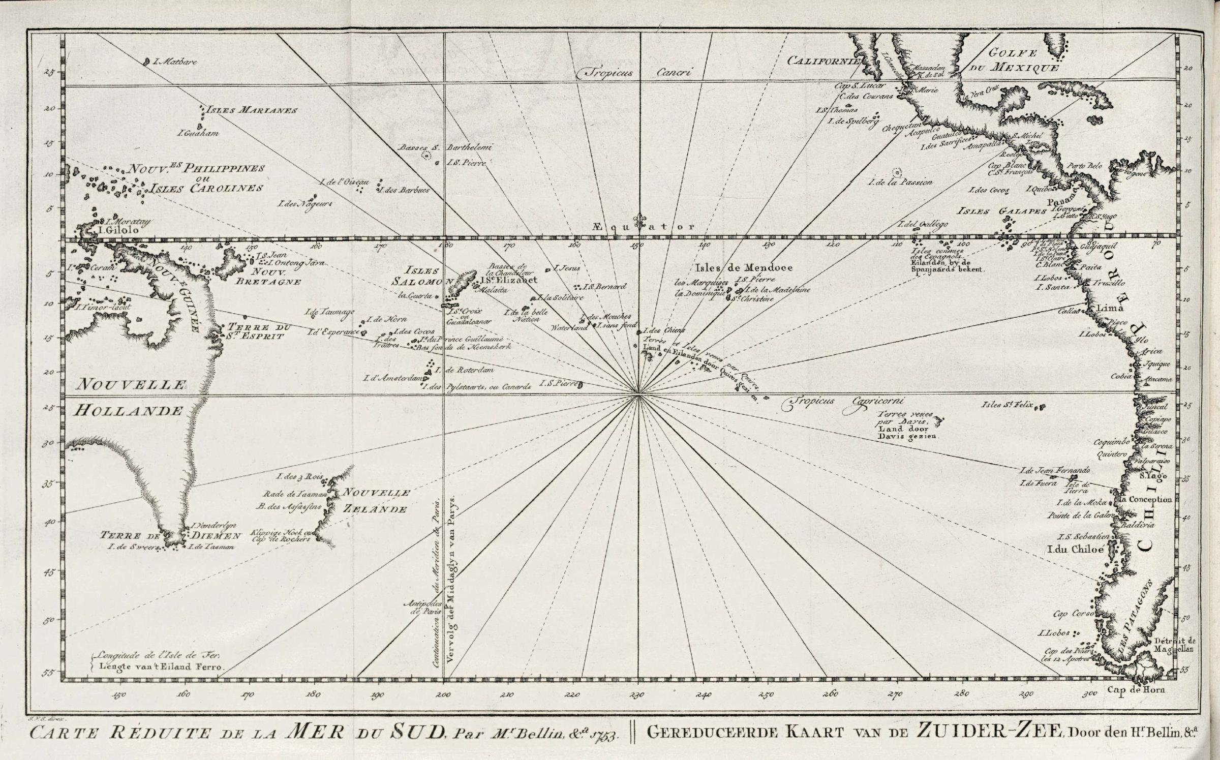 Map of the Pacific Ocean, with Australia and the west coast of South America. Carte Réduite de la Mer du Sud, Par Mr. Bellin, &a. 1753. Gereduceerde Kaart van de Zuider-Zee, Door den Hr. Bellin, &ca..